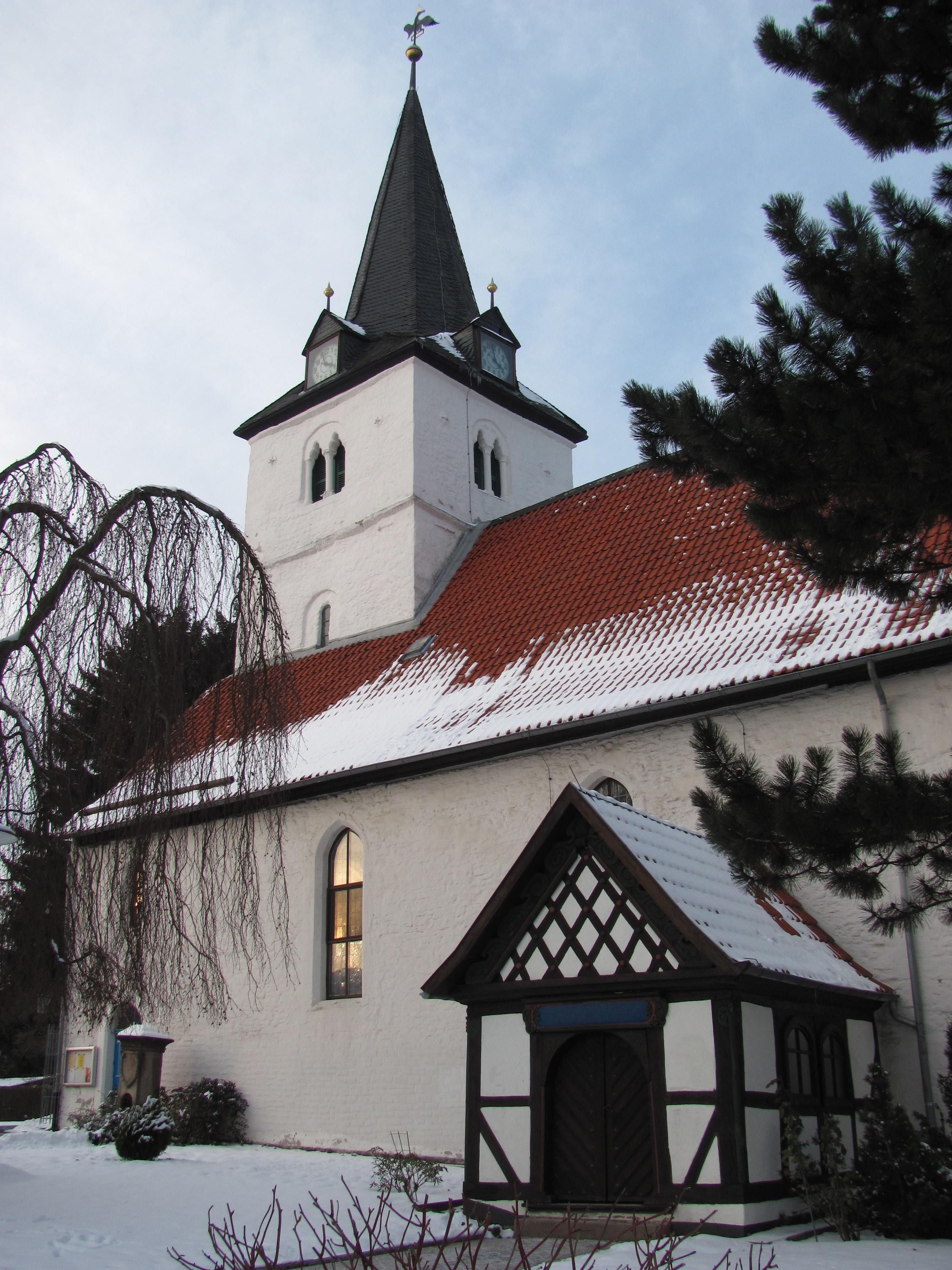 Protestant Church, Bad Sachsa, Harz mountains, Lower Saxony, Germany